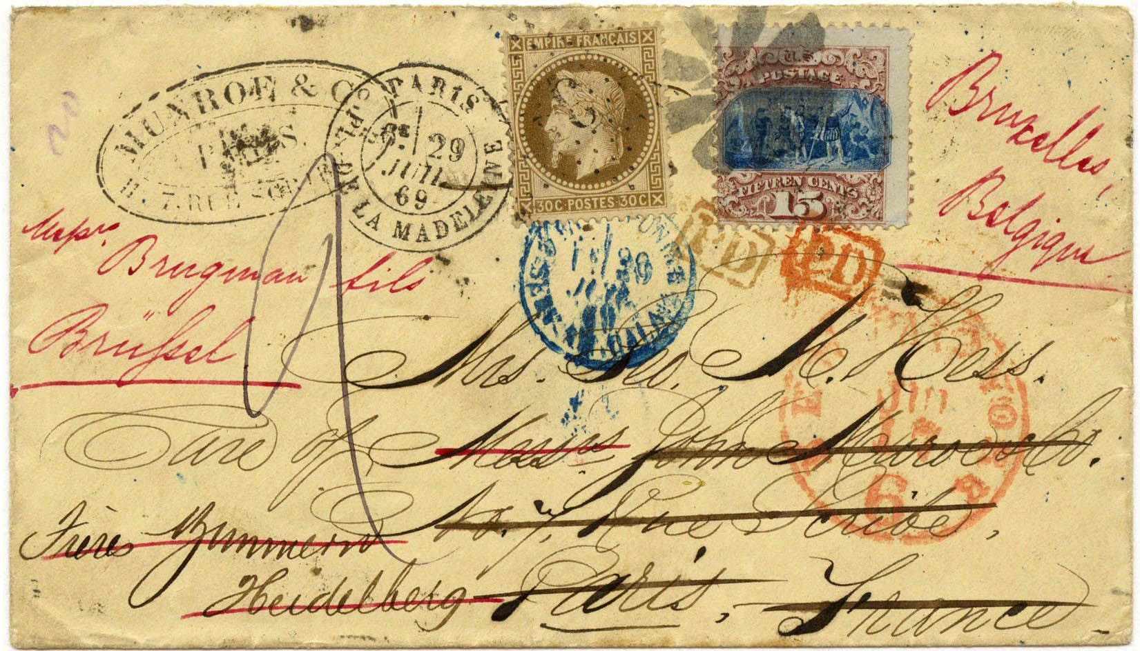 Cover of a letter sent from the USA to John Munroe and Co.